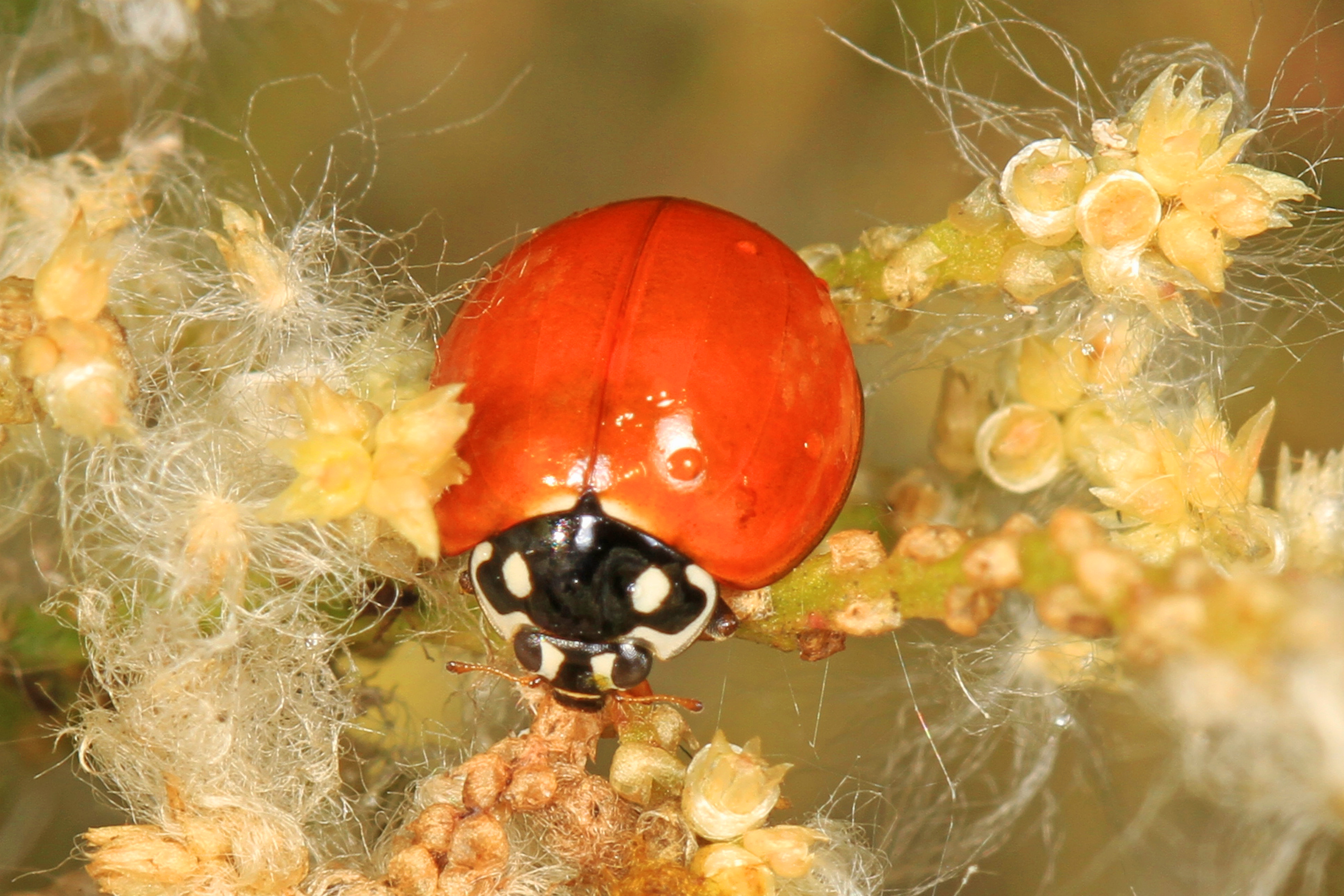 Spotless Lady Beetle - Cycloneda sanguinea, Loxahatchee National Wildlife Refuge, Boynton Beach, Florida.